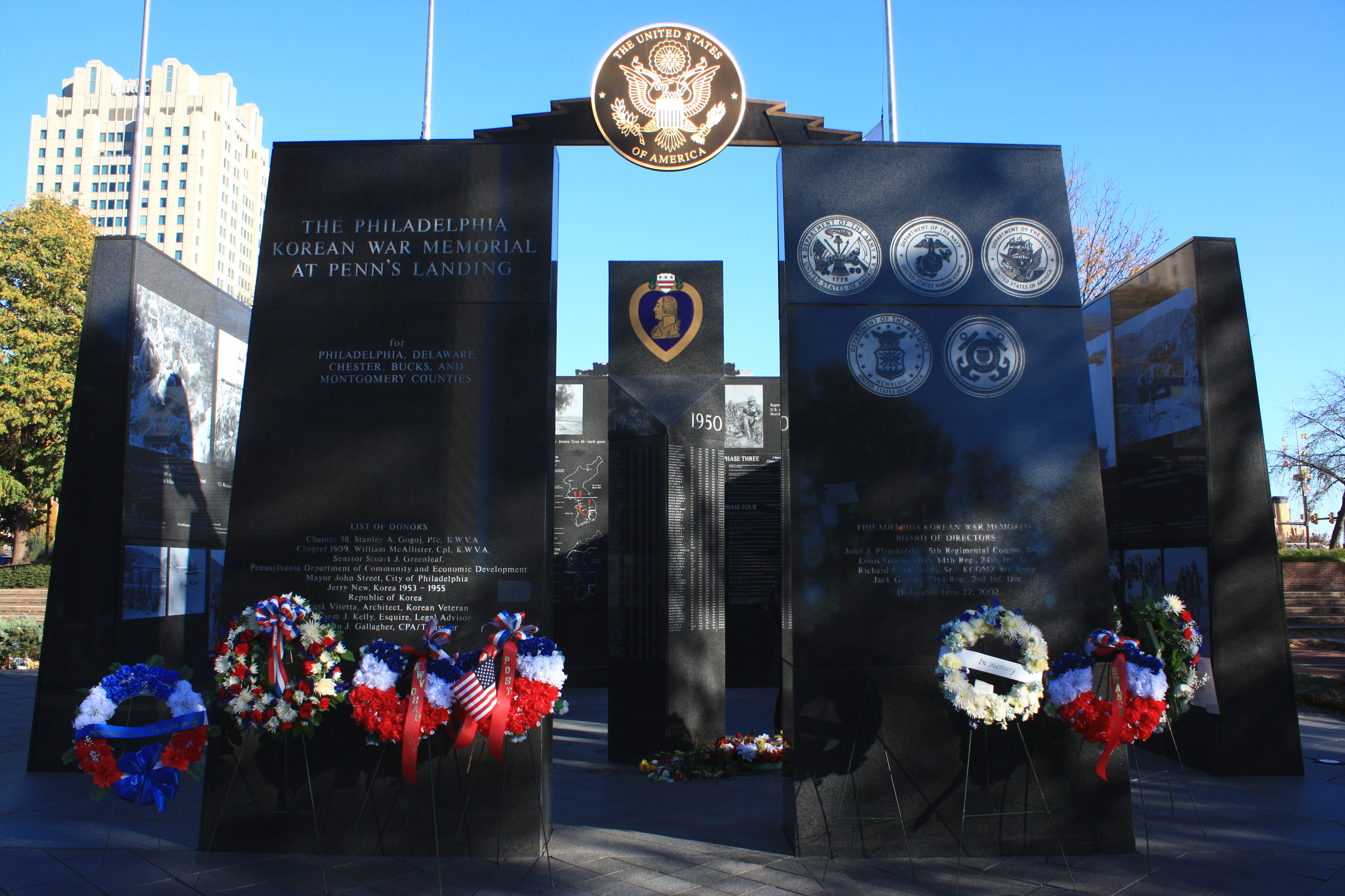 Philadelphia Korean War Memorial, west entrance facade